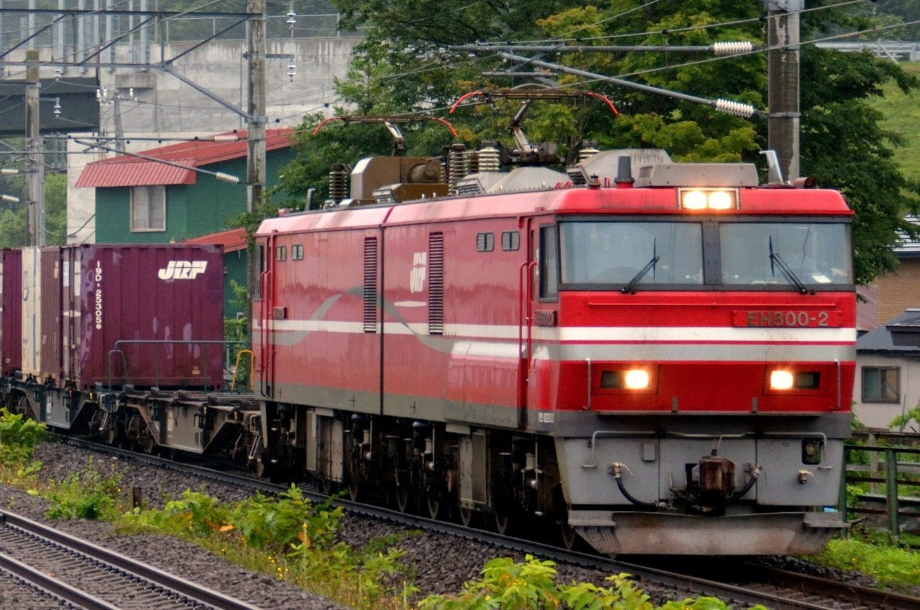 JR Freight Class EH800 electric locomotive EH800-2 hauling container freight service 3065 through Moheji Station